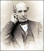 Charles Haynes Haswell, later in life, (?1870s or 1880s)